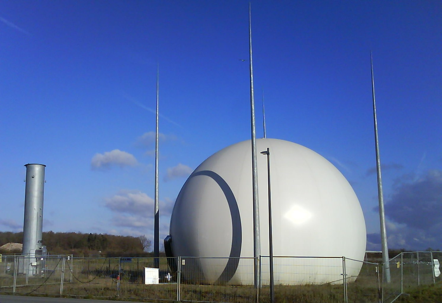 Author: Alex Marshall